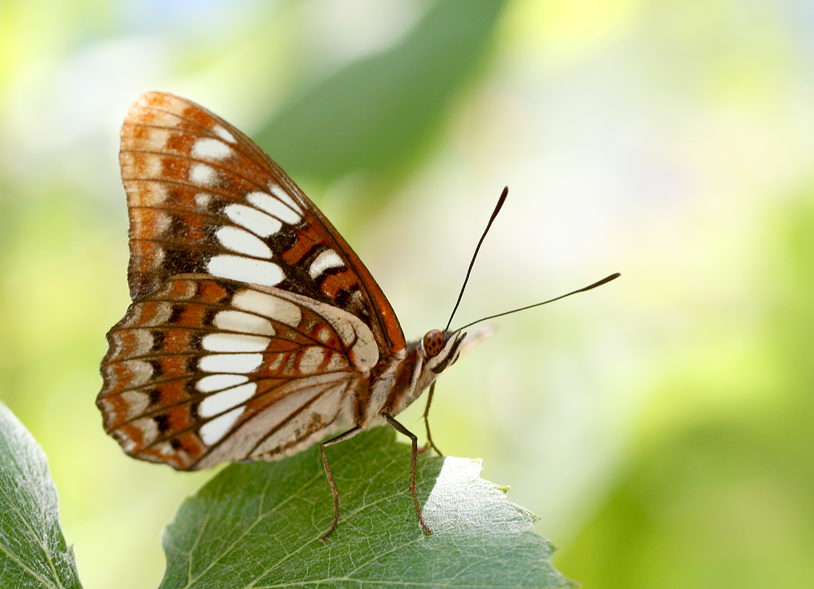 Lorquin's Admiral (Limenitis lorquini). Found at Cosumnes River Preserve near Galt, Central Valley of California.